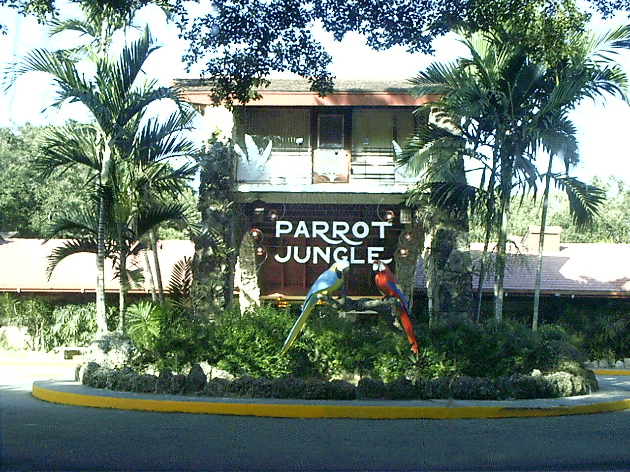 Digital photo taken by Marc Averette The original Parrot Jungle in Pinecrest, Florida near Miami, Florida